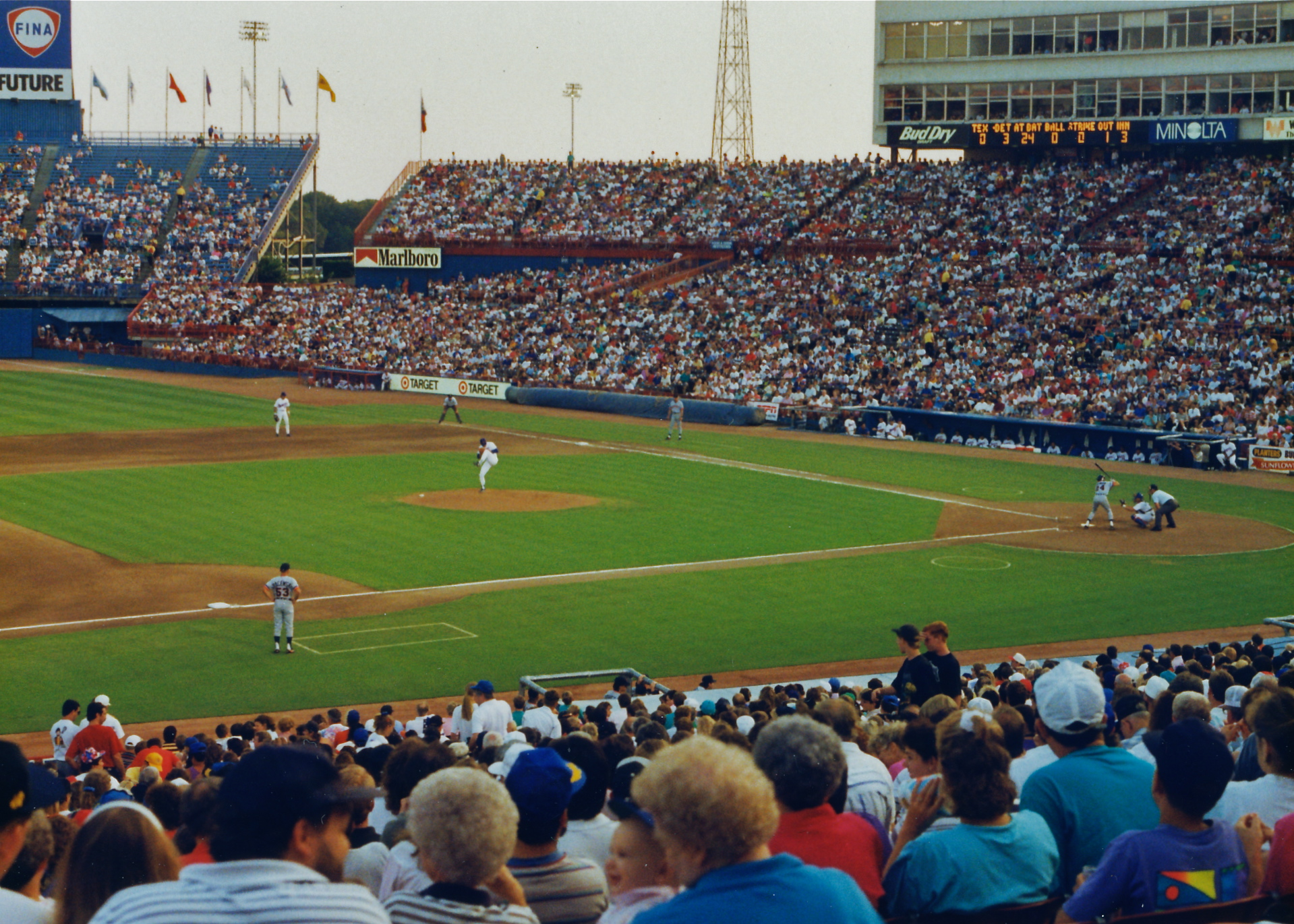 With Travis Fryman at the plate, fireball pitcher Nolan Ryan goes into his windup. It was not one of Ryan's best outings. The score is already 3 to nothing in favor of the Tigers in the 3rd inning. Ryan would be lifted in the 5th inning after giving up 5 earned runs.